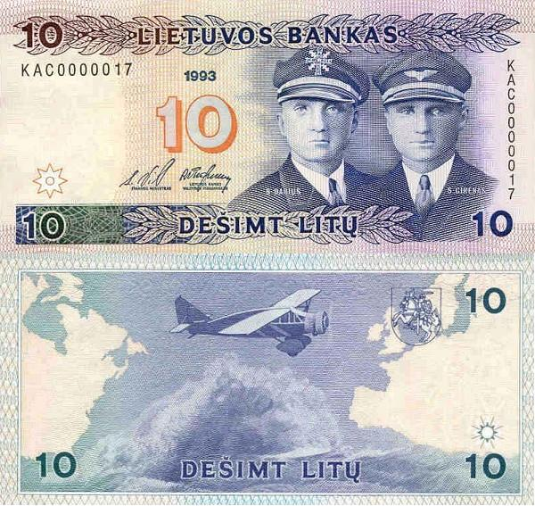 10 litai banknote. Released in 1993.